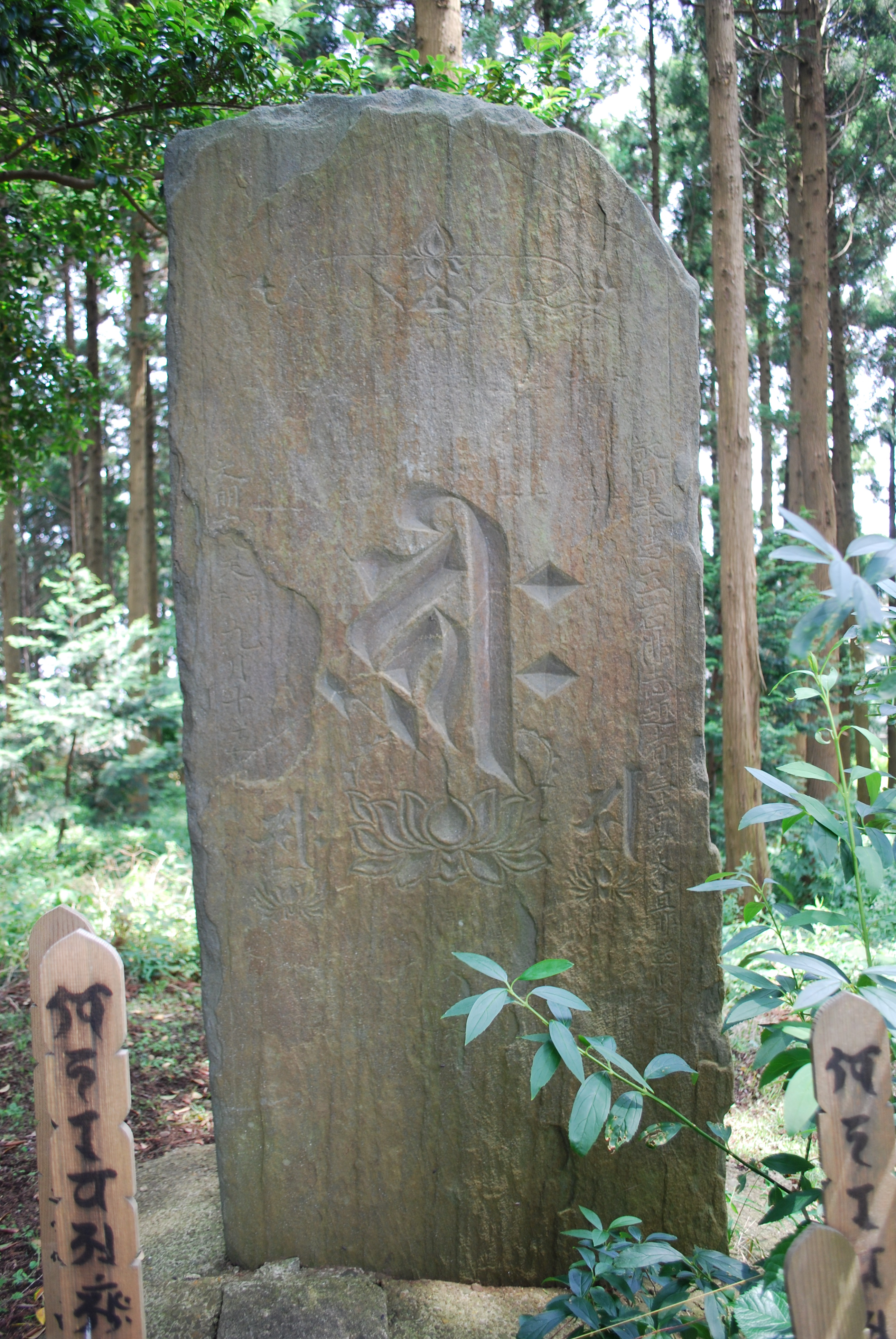 Itabi,Zuhaku-shonin-nyujyotsuka,1486,Katori-city,Japan